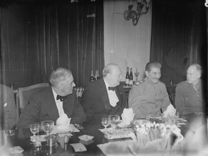 The 'Big Three', Franklin D Roosevelt, Winston Churchill and Joseph Stalin, sit together at a dinner party held in the Victorian Drawing Room of the British Legation, Tehran, in Iran, to mark Winston Churchill's 69th birthday on 30th November 1943.